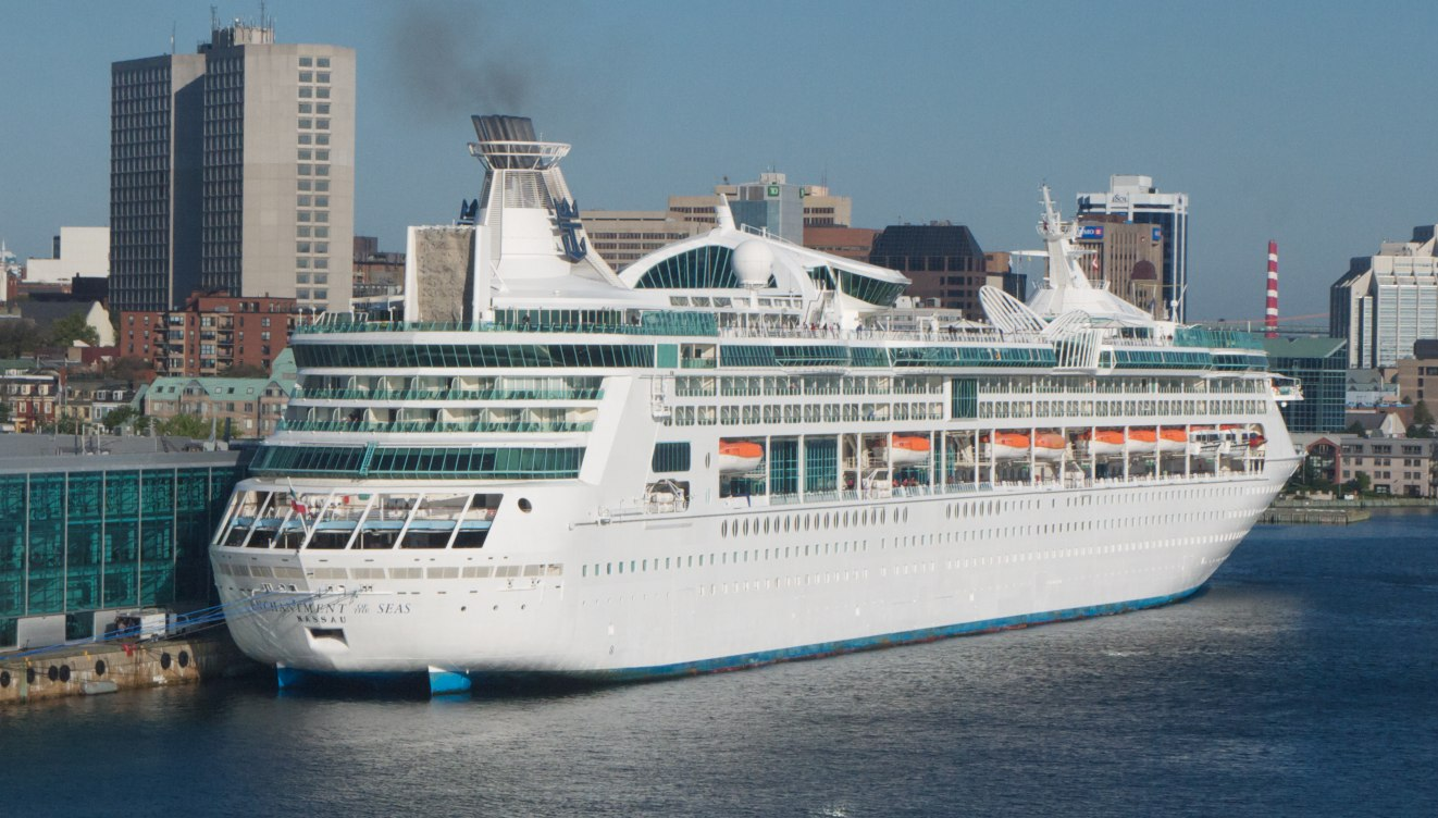 MS Enchantment of the Seas in Halifax, Nova Scotia.